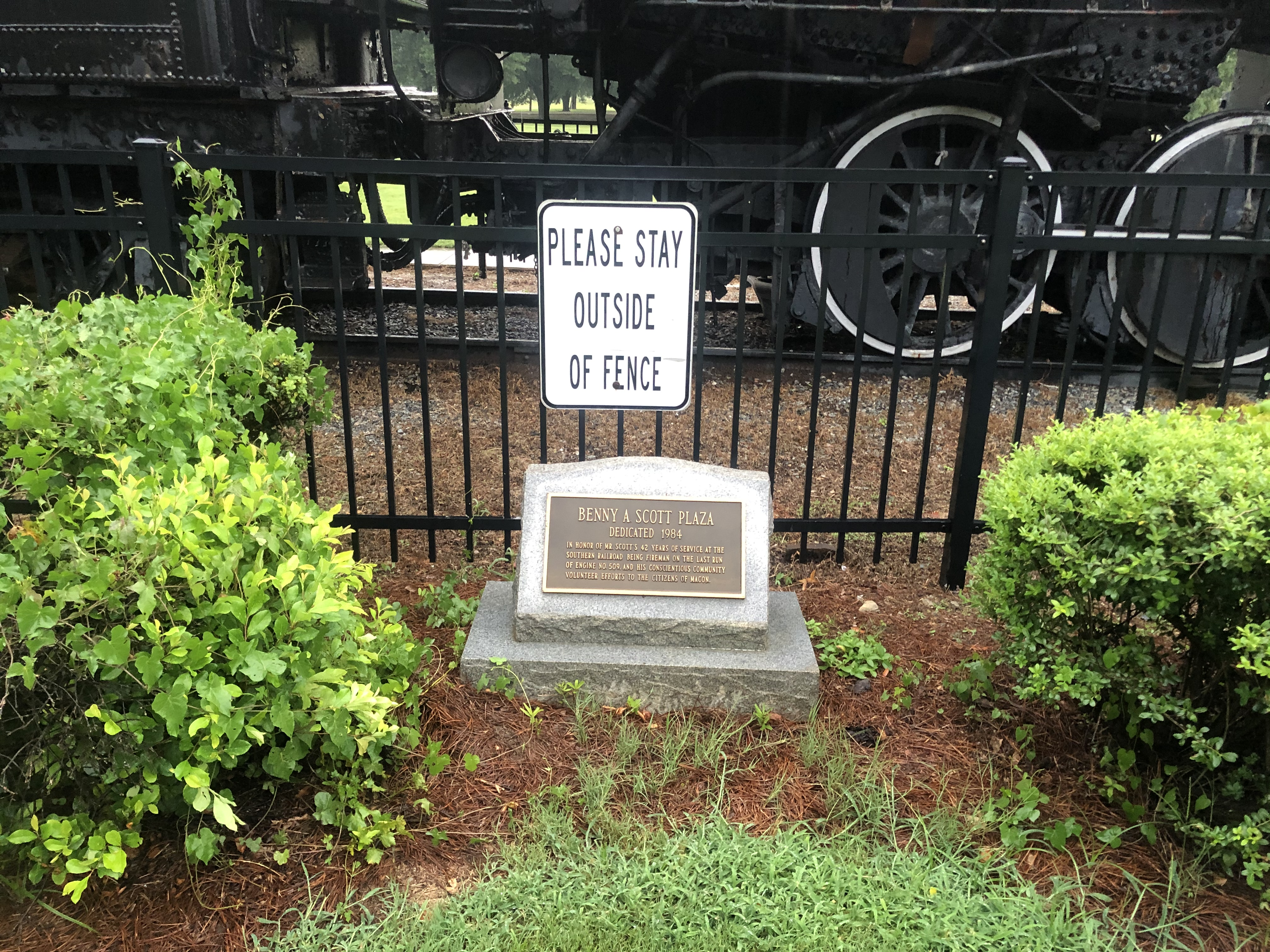 Benny Scott plaque in center city park